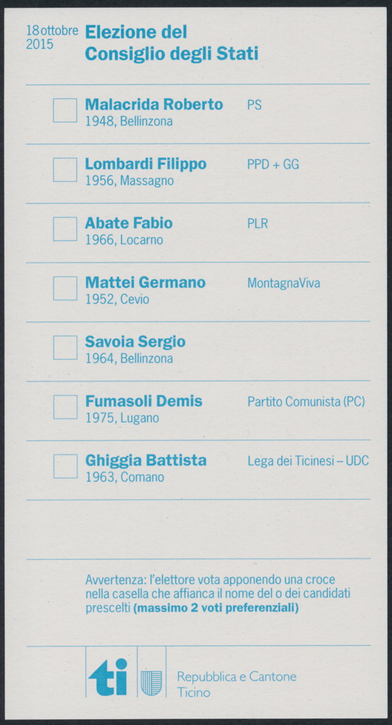 Ballot paper for the 2015 Council of States election in the Canton of Ticino.